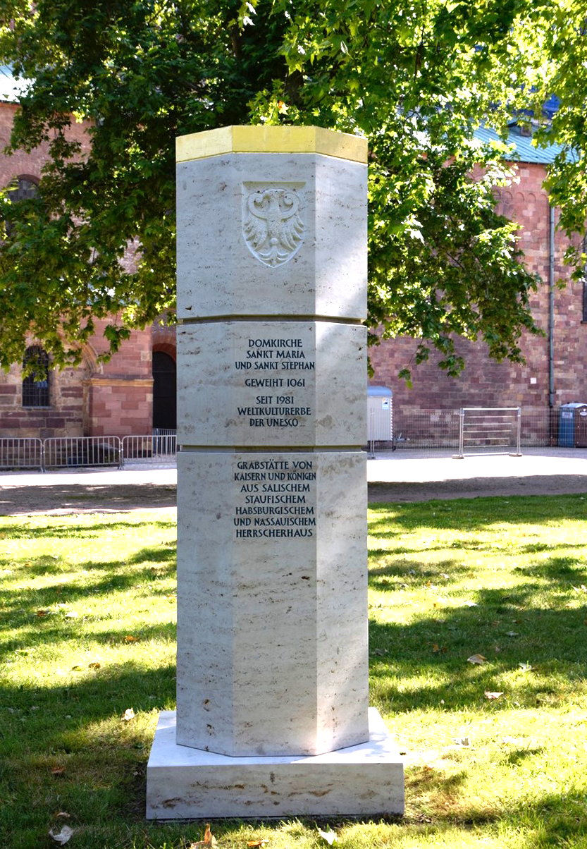 Stauferstele in Speyer by Markus Wolf (inaugurated on 2018/06/02)